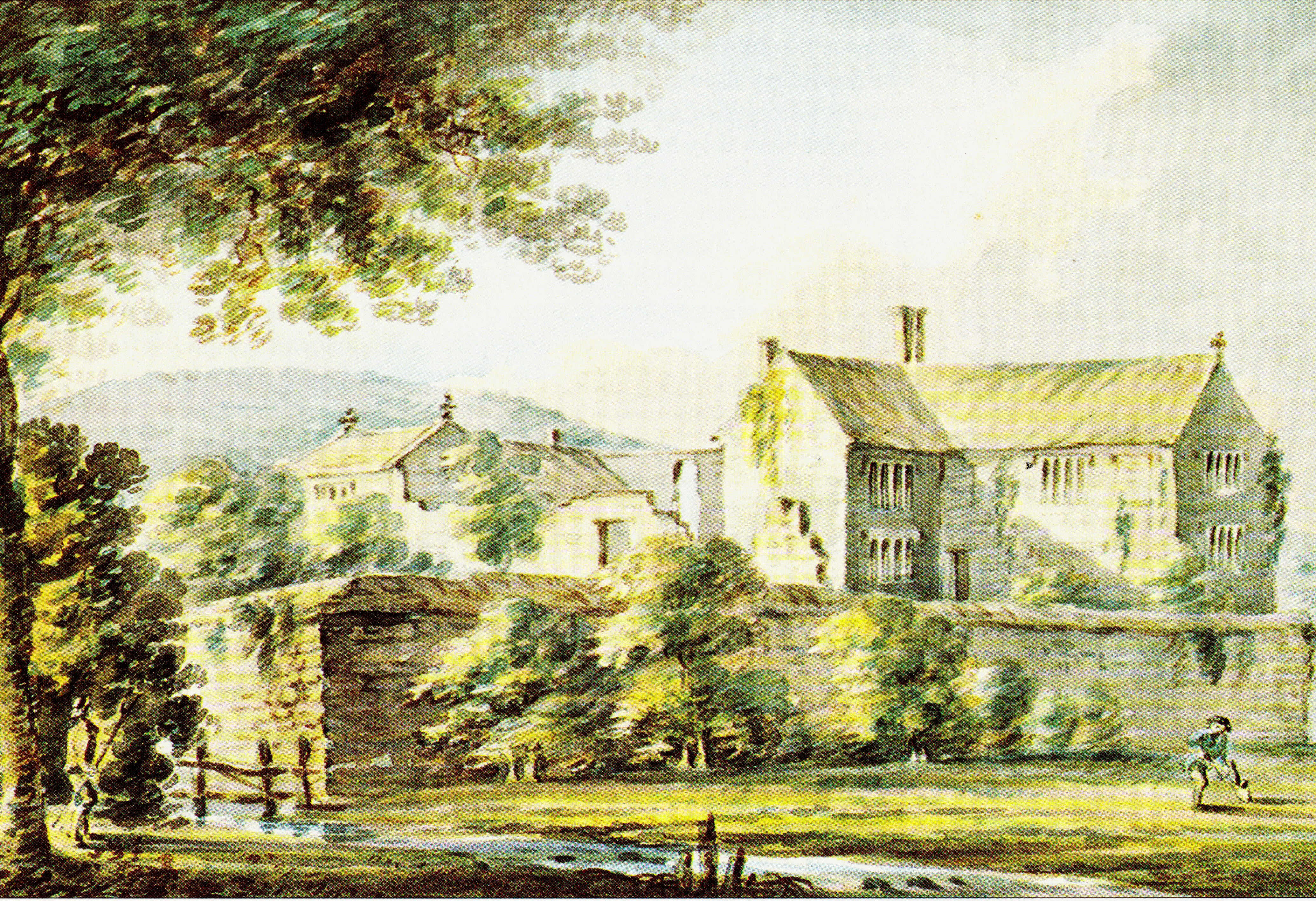 Ash in the parish of Musbury, Devon. Watercolour entitled "Ash, antient seat of the Drakes", by Rev. John Swete (1752-1821) of Oxton, Kenton, Devon, dated 13 February 1795. Devon Record Office 564M/F7/129